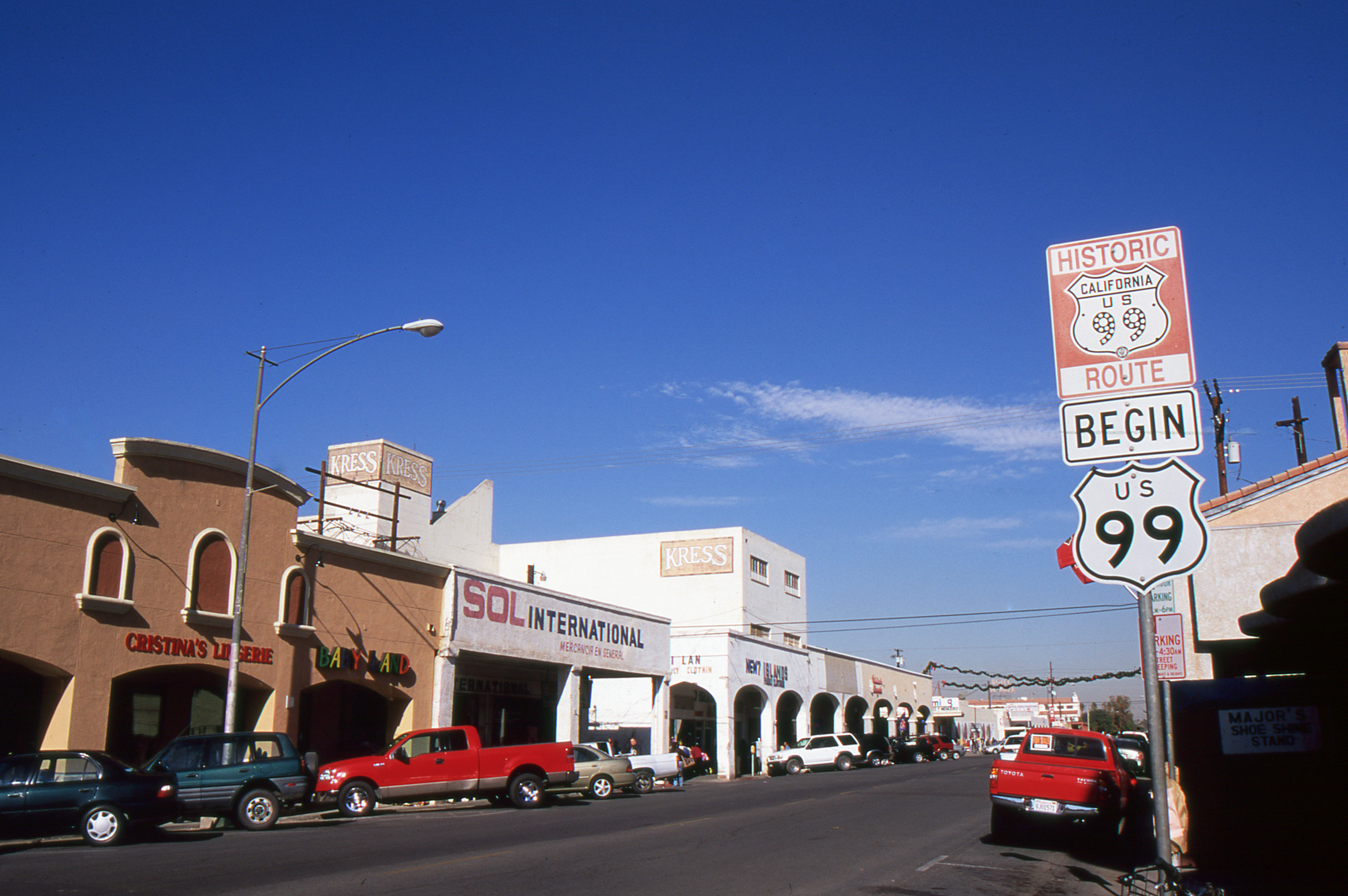 Beginning of U.S. Route 99 in Calexico, California, USA